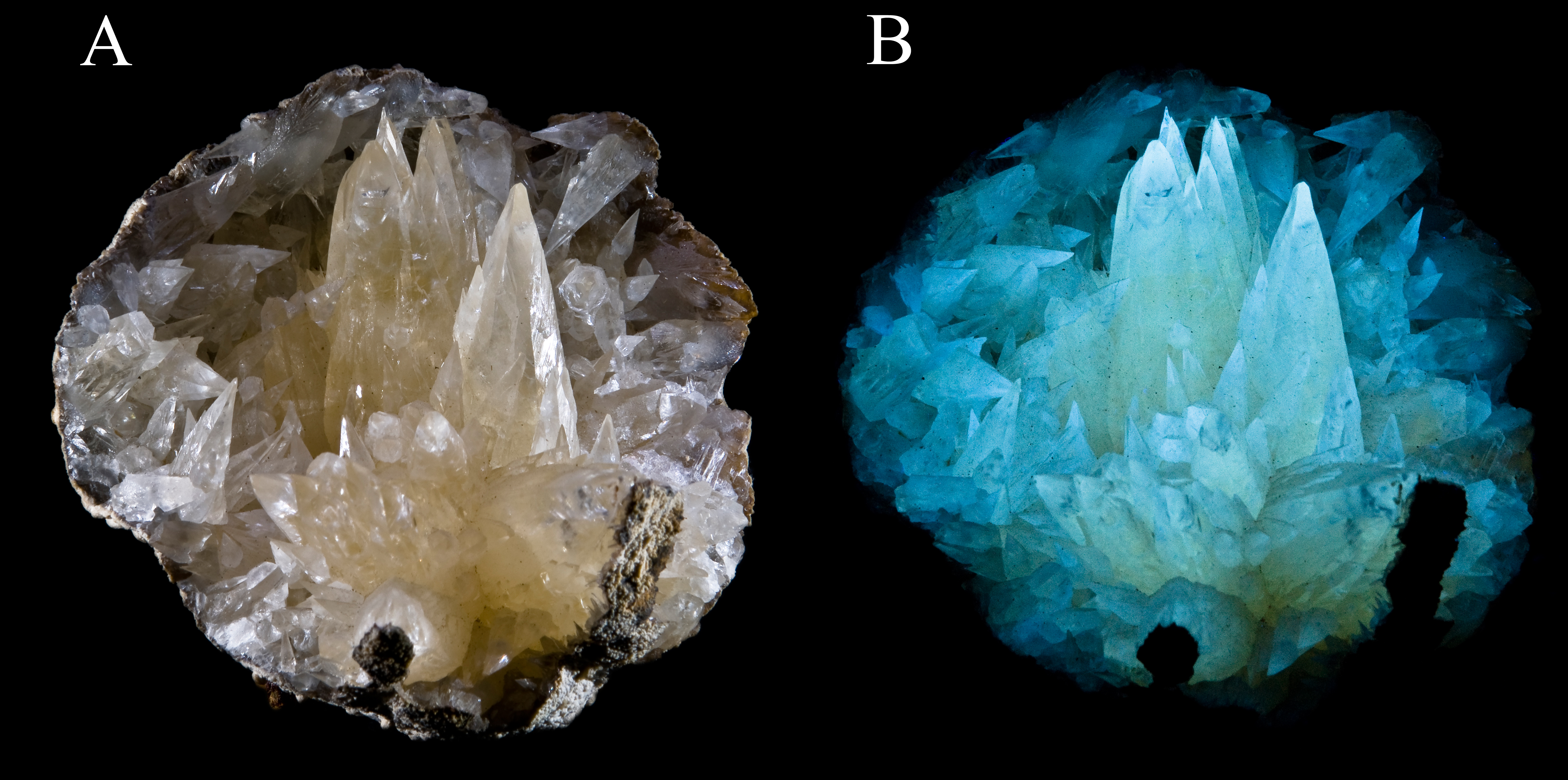 Calcite - Locality: South Morocco - size: 5.9 cm - A: Daylight ; B: Ultraviolet light